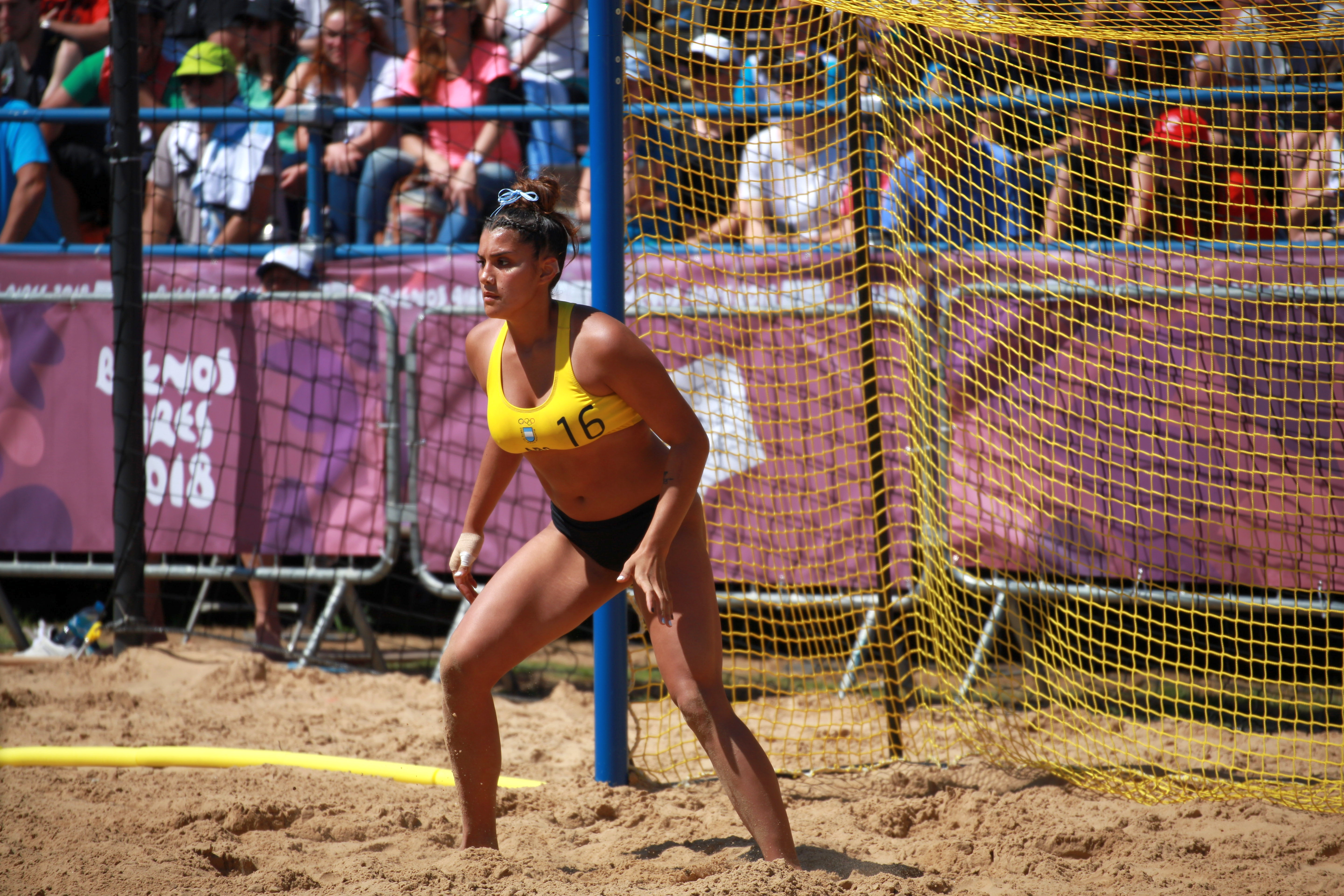 Beach handball at the 2018 Summer Youth Olympics in Buenos Aires at 13 October 2018 – Girls Semifinal – Hungary-Argentina 1:2